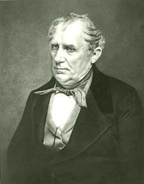 Image of J.F.Cooper